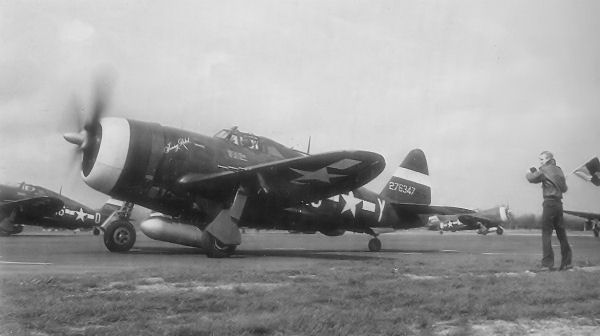 "Jenny Rebel" P-47D 42-76347 of 389th Fighter Squadron, 366th Fighter Group USAAF, taking off on runway 26 from Thruxton airfield, England.